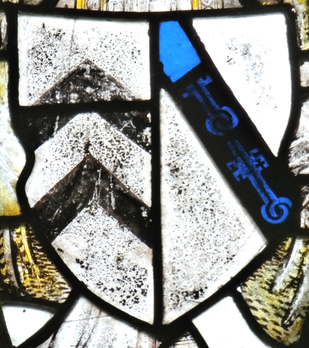 Ancient (15th c?) stained glass in the Thuborough Chapel of Sutcombe Church, Devon, showing the arms of de Esse of Thuborough (Argent, two chevrons sable) impaling Spencer of Spencer Combe, Crediton (Argent, on a bend sable two pairs of keys or, per Pole, Sir William (d.1635), Collections Towards a Description of the County of Devon, Sir John-William de la Pole (ed.), London, 1791, p.502). It does not however appear that a marriage of a de Esse husband to a Spencer wife ever took place. William Prideaux of Adeston married Alice Giffard, daughter and heiress of Stephen Giffard (fl. 1438) of Thuborough (whose family had inherited Thuborough from de Esse) who married firstly to Joan Spencer, daughter and heiress of John Spencer of Spencer Combe, (Sources: Vivian, Lt.Col. J.L., (Ed.) The Visitation of the County of Devon: Comprising the Heralds' Visitations of 1531, 1564 & 1620, Exeter, 1895, pp.618, 397; Risdon, Tristram (d.1640), Survey of Devon, 1811 edition, London, 1811, with 1810 Additions, p.249